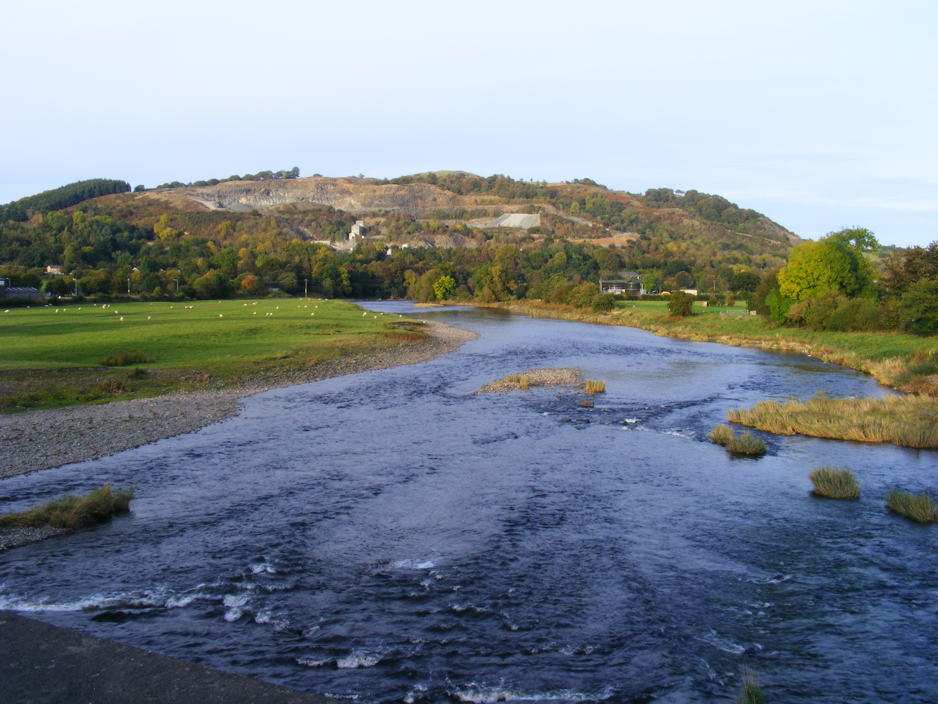 Llanelwedd quarries from the River Wye near Builth Wells in mid-Wales. The quarries are a major feature of Llanelwedd village.